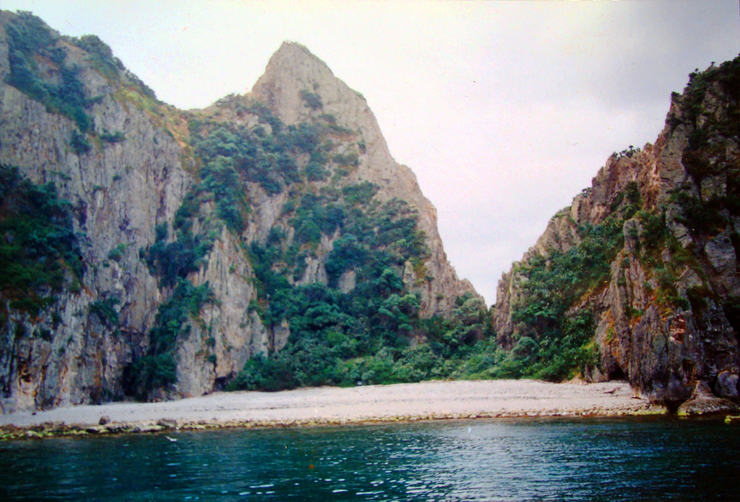 A bay on one of the Aldermen Islands, New Zealand. Possibly Middle Island. Digital copy of a photo taken around 1991.